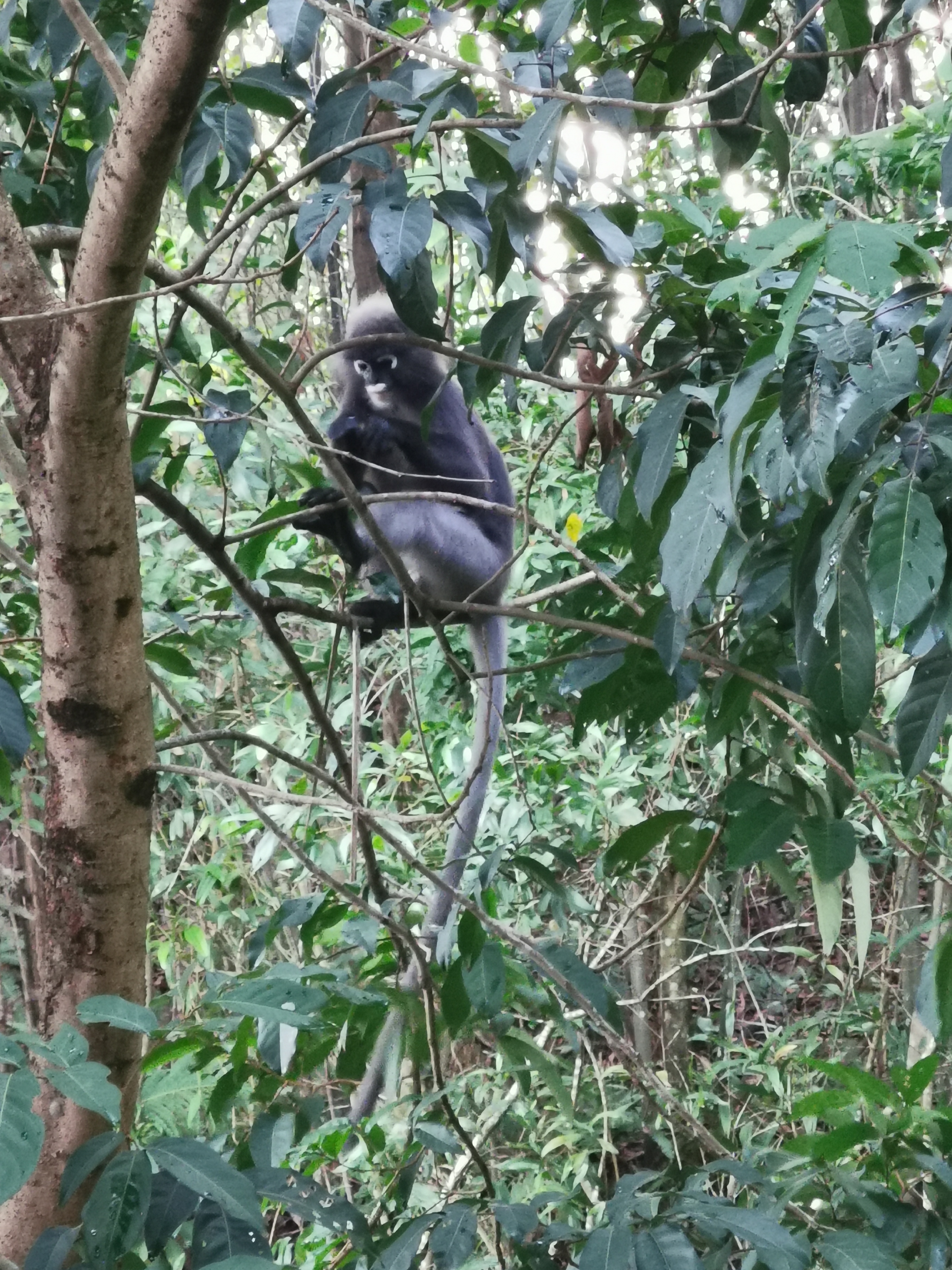 Lutung in Selangor urban area in Kajang.